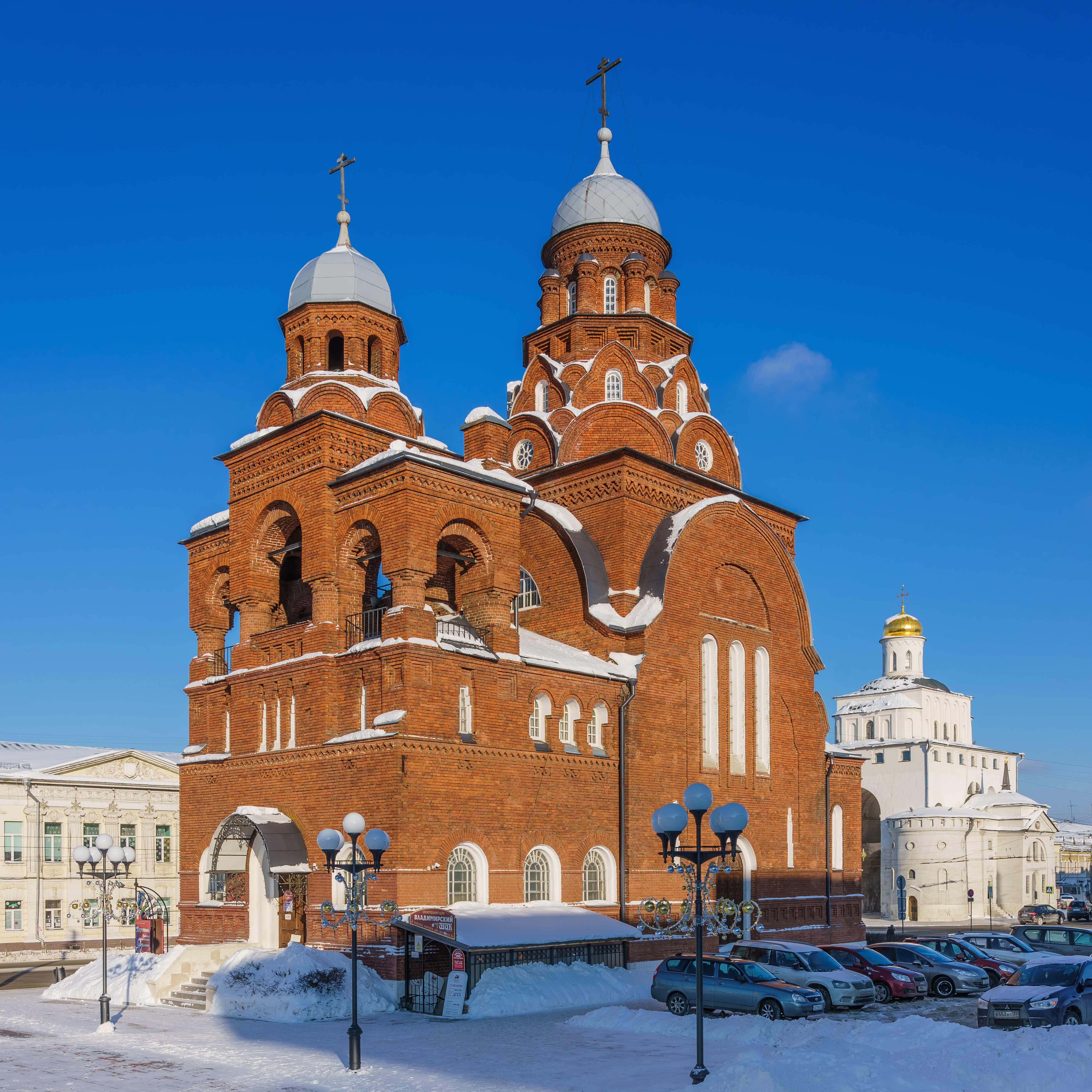 Red Church at the Golden Gate in Vladimir, Russia